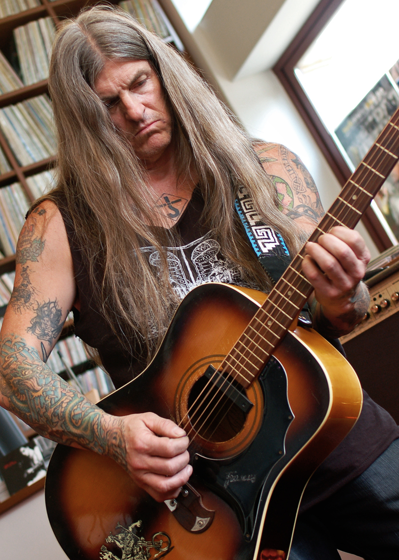 Scott Weinrich playing a guitar